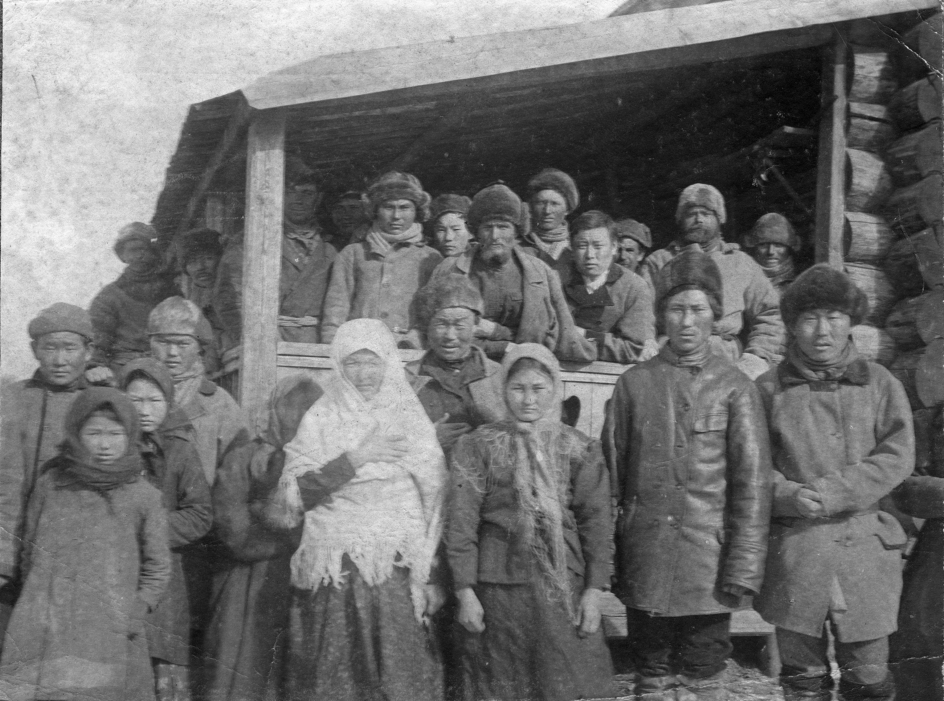 Evenks